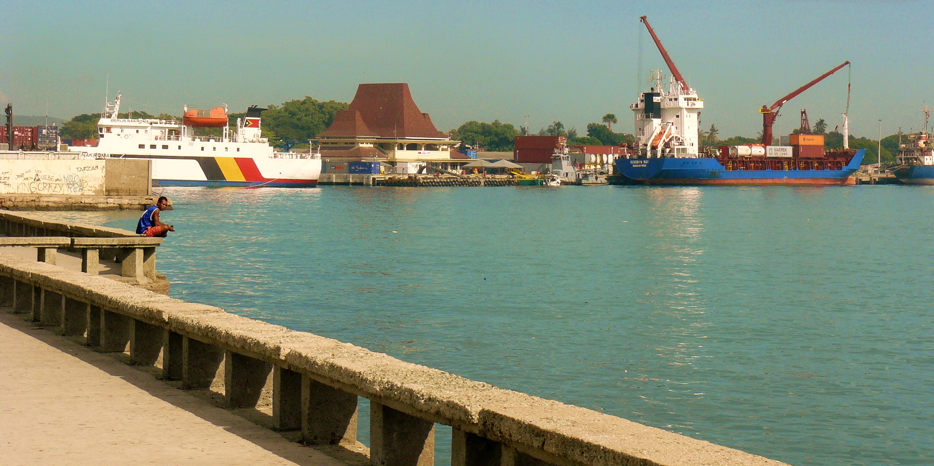 Dili harbour with ferry Berlin Nekroma at the left